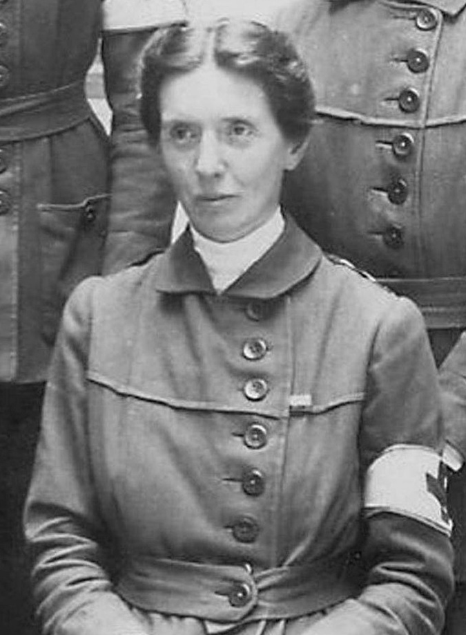 Portrait of Flora Murray